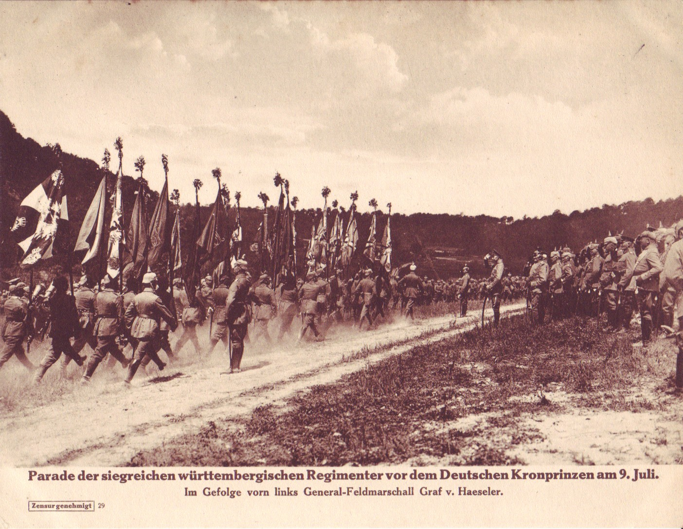 Postcard July 9